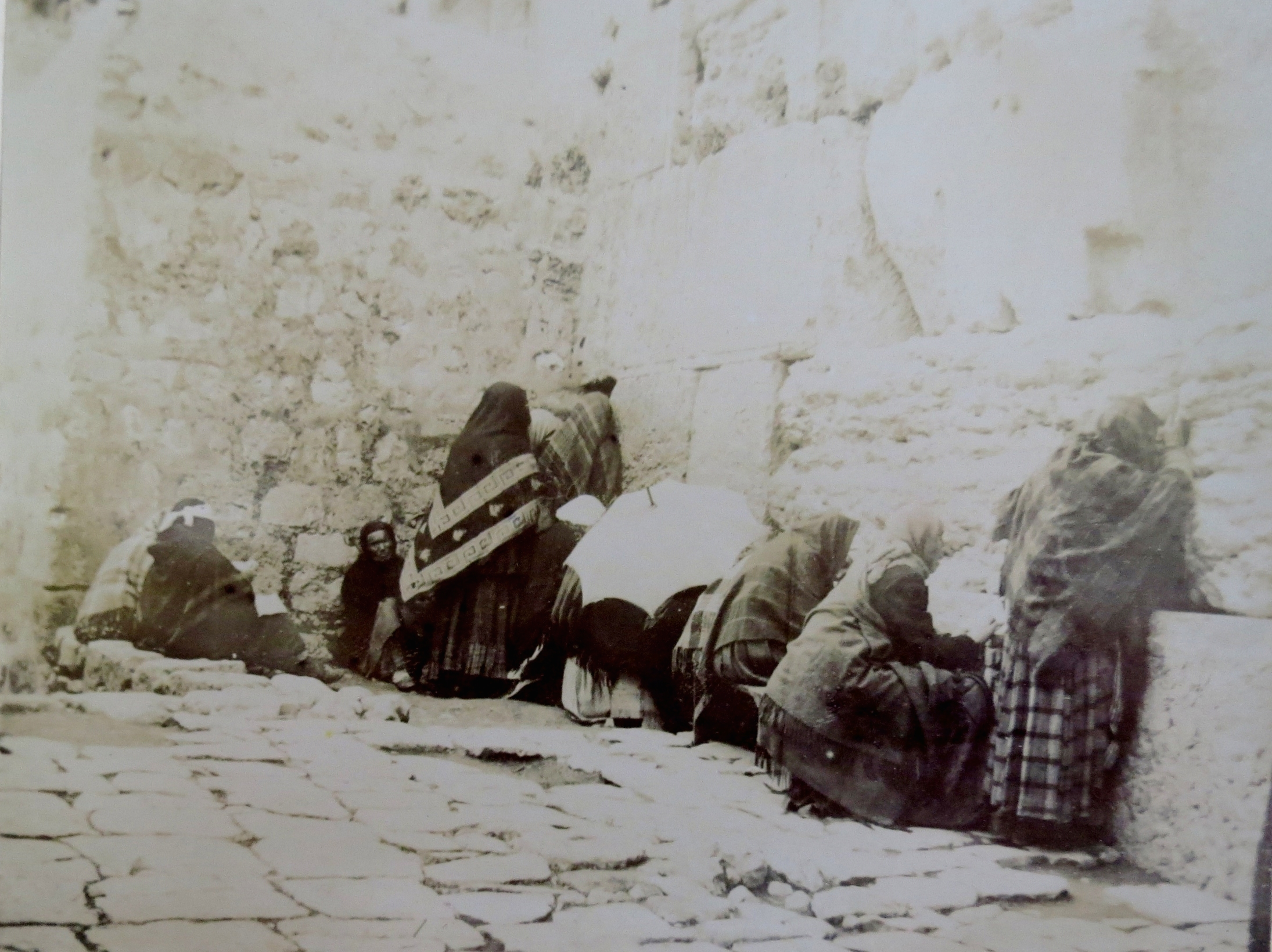 Jew's Wailing Place, Jerusalem, 1891. From original silver print in book titled: "A Month in Palestine and Syria, April 1891," (author unknown). Original 19th century book in the possession of Kimberly Blaker, New Boston Fine and Rare Books.